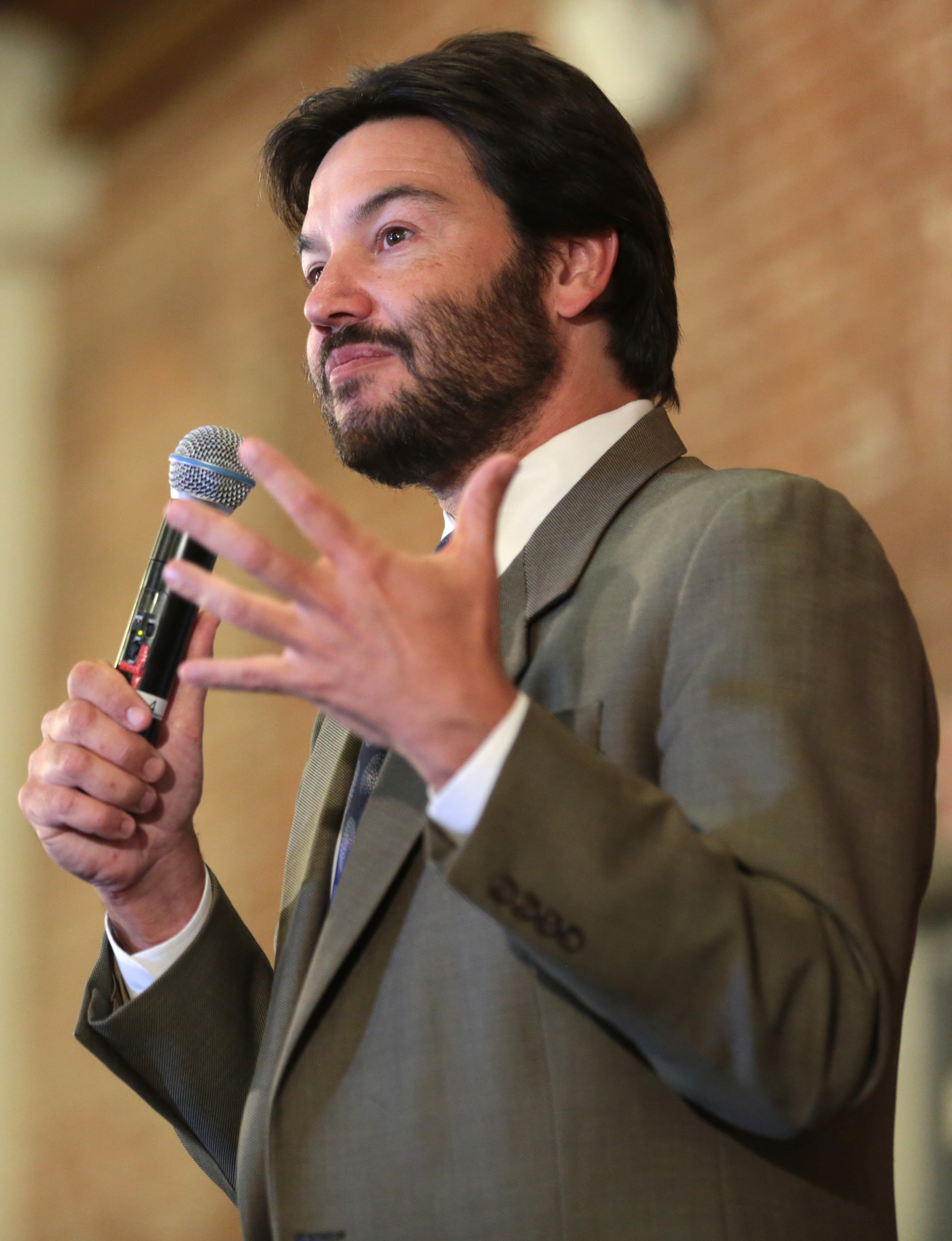 Jonathan Koppell speaking at an event in Phoenix, Arizona